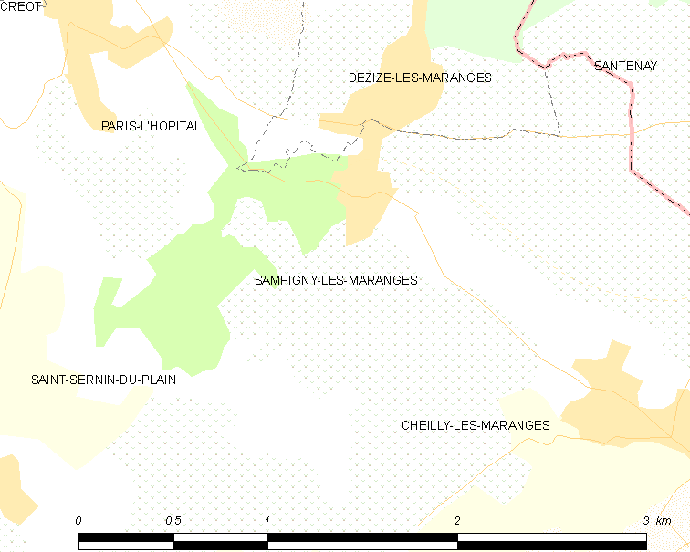 Map of French municipality